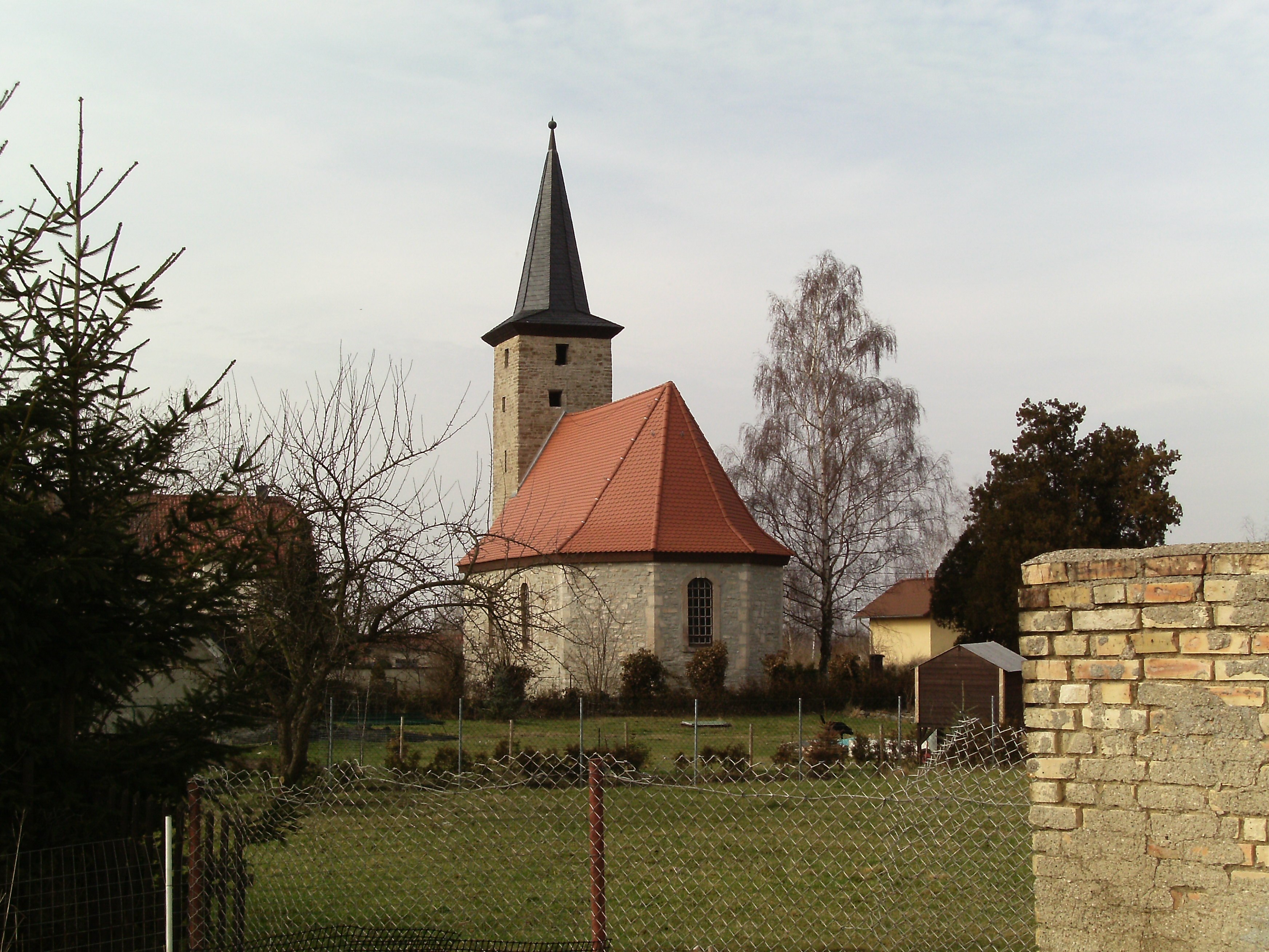 Thalschütz Church in Kötzschau (Leuna, district of Saalekreis, Saxony-Anhalt)